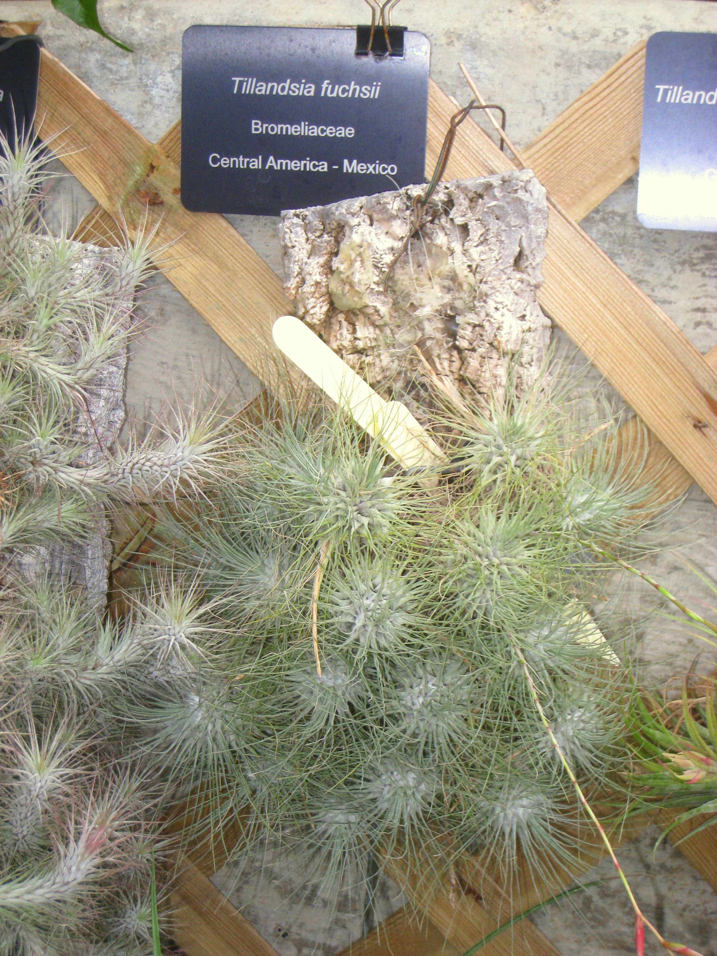 Tillandsia fuchsii. Specimen in the conservatory - Matthaei Botanical Gardens, University of Michigan, 1800 N Dixboro Road, Ann Arbor, Michigan, USA.